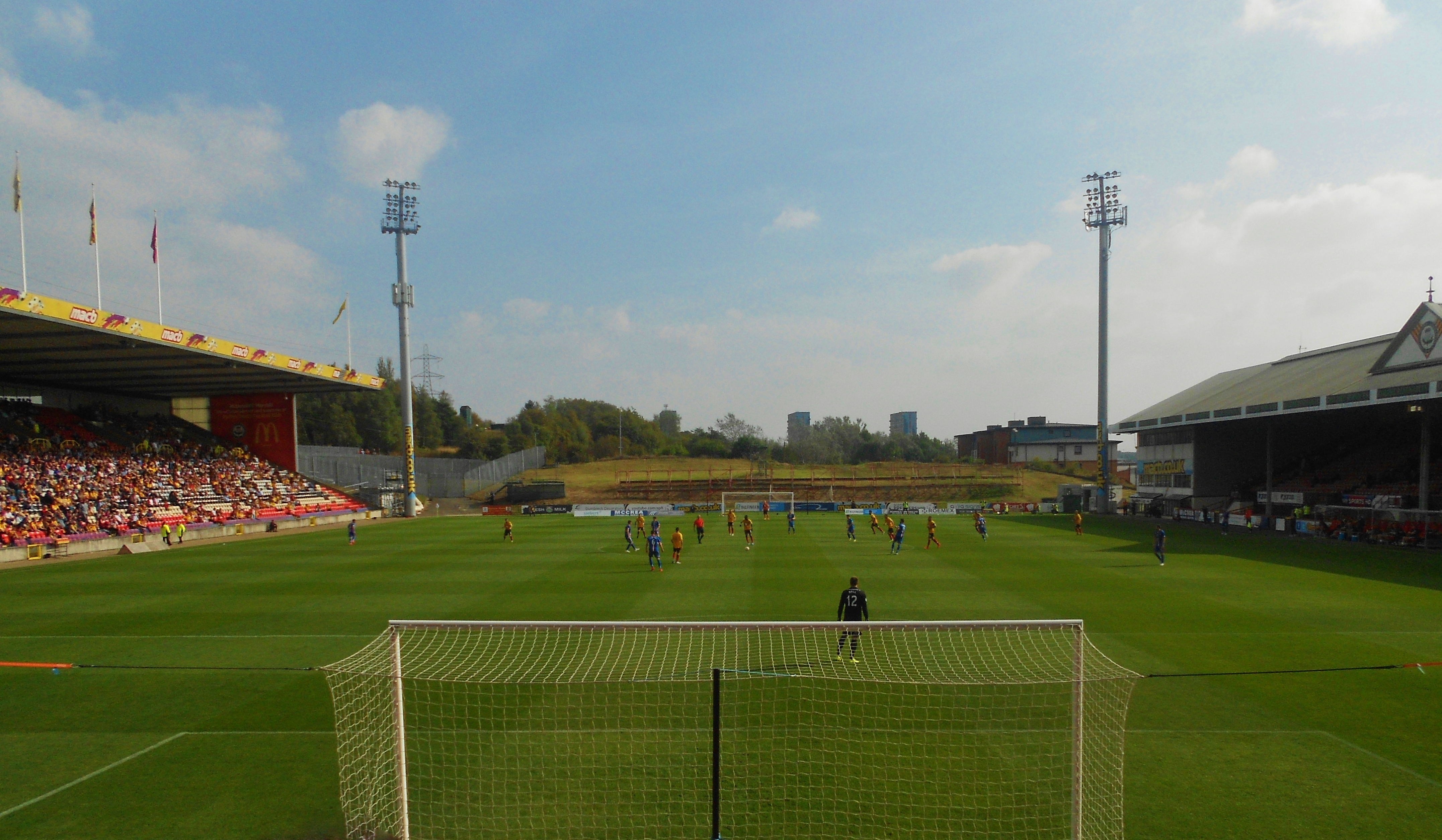 Taken from North Stand at Firhill. Match was Partick Thistle vs Inverness CT